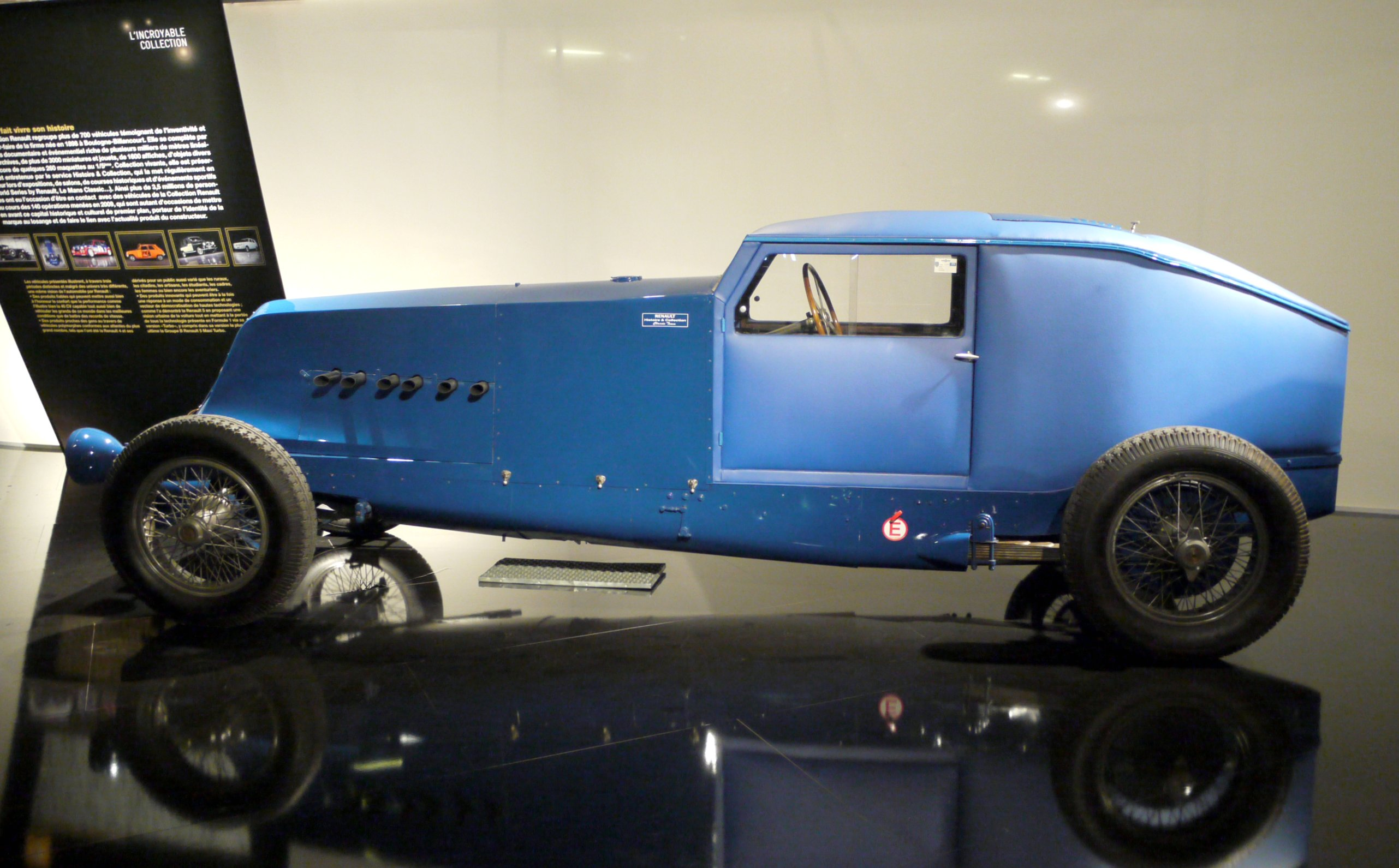 1926 Renault 40 CV "des records" Type NM. Spec.: - 6 cyl. - 9120 cc - Approx. 140 bhp - Top speed: approx. 200 Km/h (124 mph) - Rear-wheel transmission - 4-speed manual gearbox